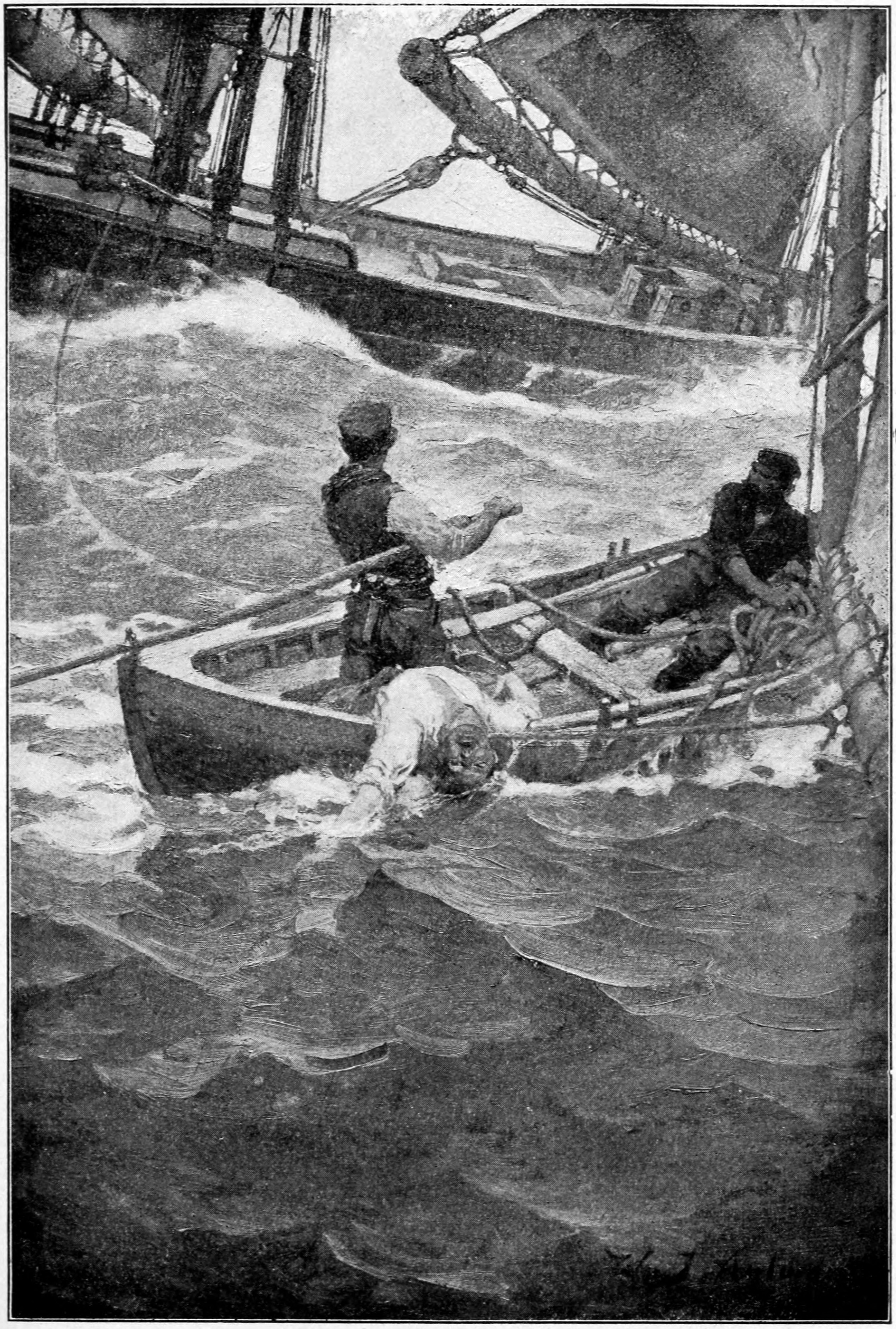 "He saw Wolf Larsen's rifle bearing upon him."